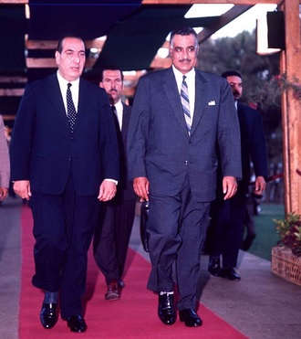 Lebanese President Charles Helou (left) and Egyptian President Gamal Abdel Nasser (right) at the Second Arab League Summit in Alexandria, Egypt